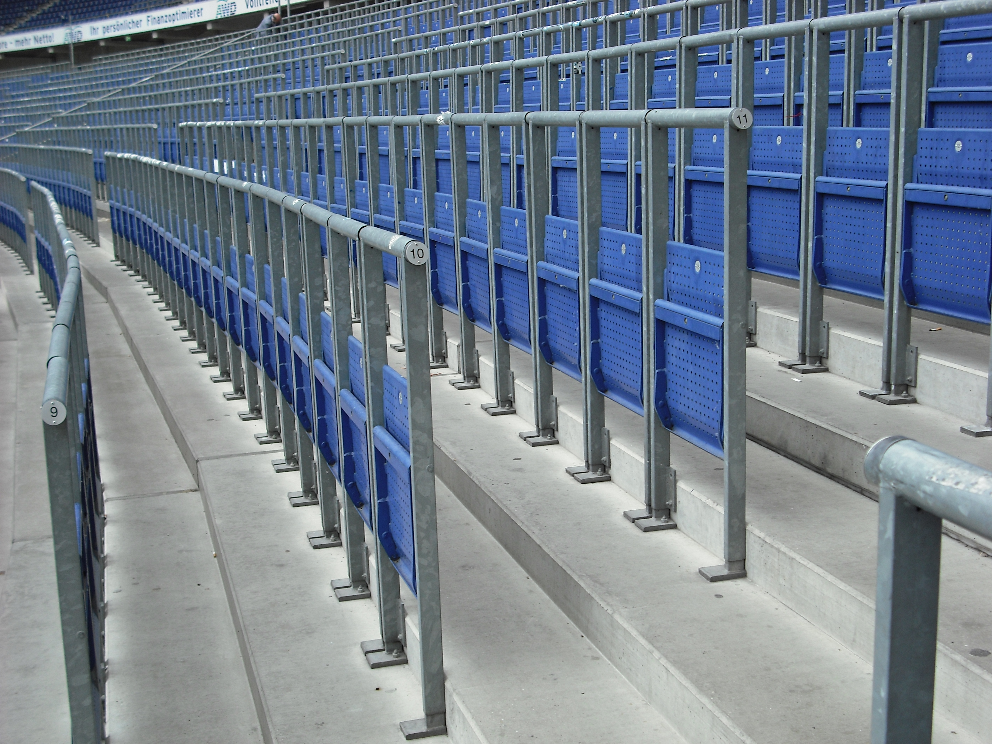 Safe standing area fitted with rail seats in the AWD Arena, Hannover. Taken in June 2012.